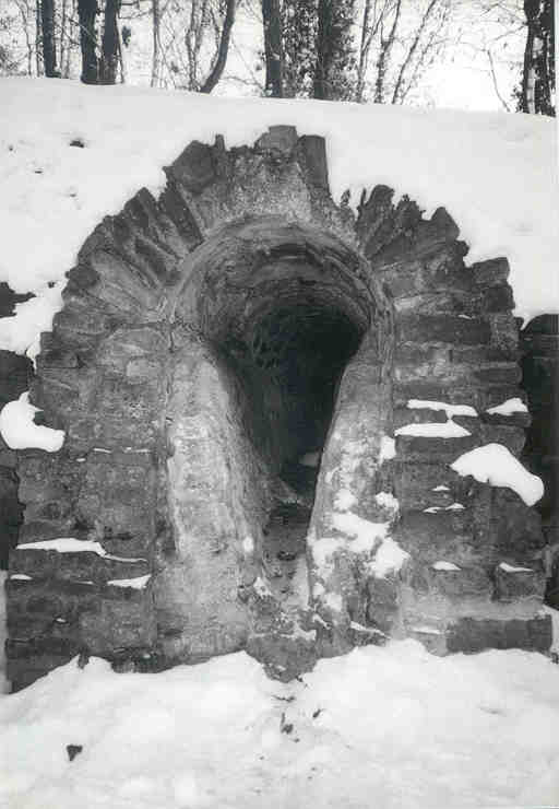 Highly calcified remains of Eifel aqueduct near Kreuzweingarten, Germany